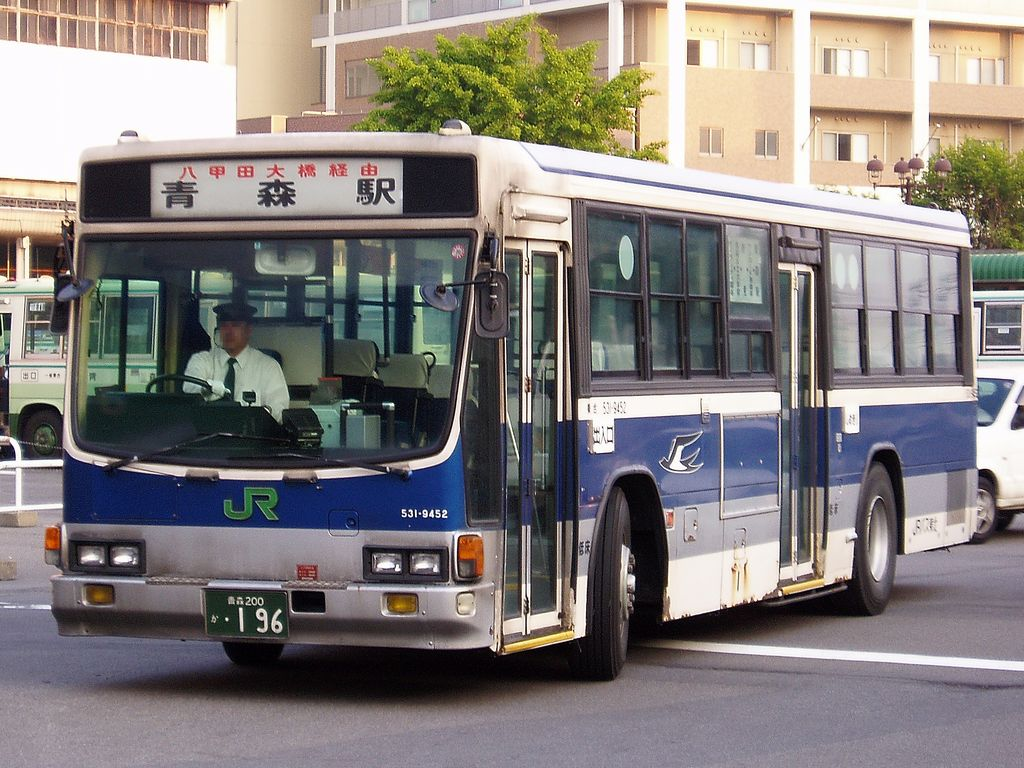 JR Bus Tohoku 531-9452 Isuzu KC-LV380N at Aomori Sta.